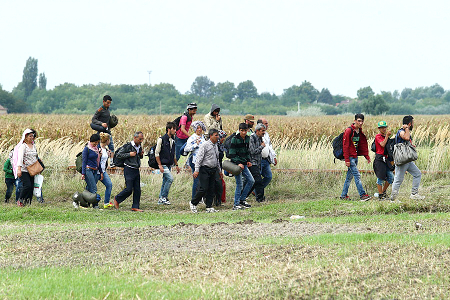 Migrants in Hungary near the Serbian border